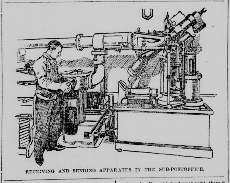 Downloaded from Chronicling America at the Library of Congress